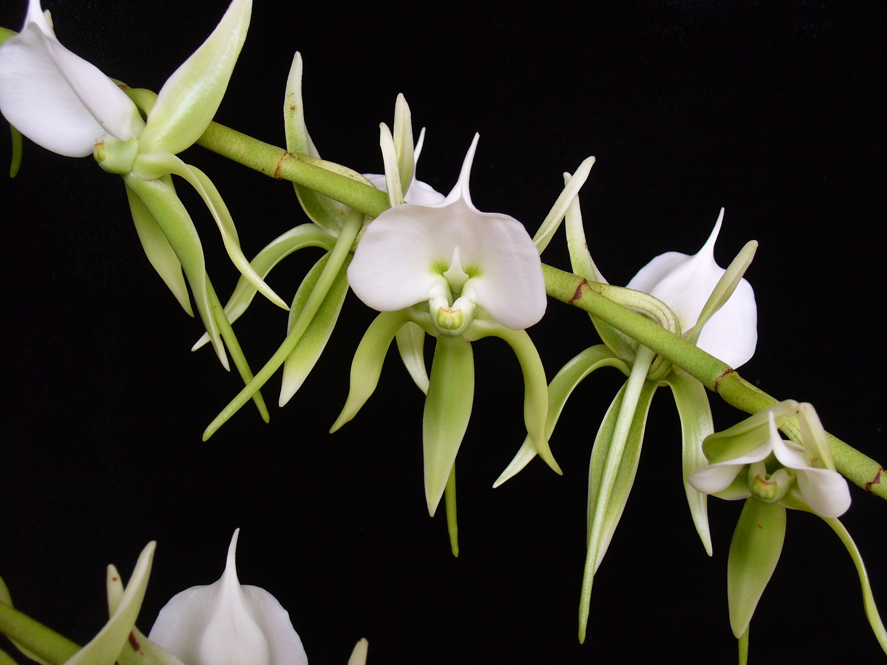 cultivated Angraecum eburneum, South Miami, FL. This is the first time flowering for this large orchid. It has three spikes of wonderfully fragrant (at night) flowers. Note that the flower is non-resupinate, an unusual condition in orchids. The pedicels of most orchid flowers are twisted so that the lip is pointing downward, a position in which the flower is morphologically upside-down. Not so with this species. The lip is uppermost.